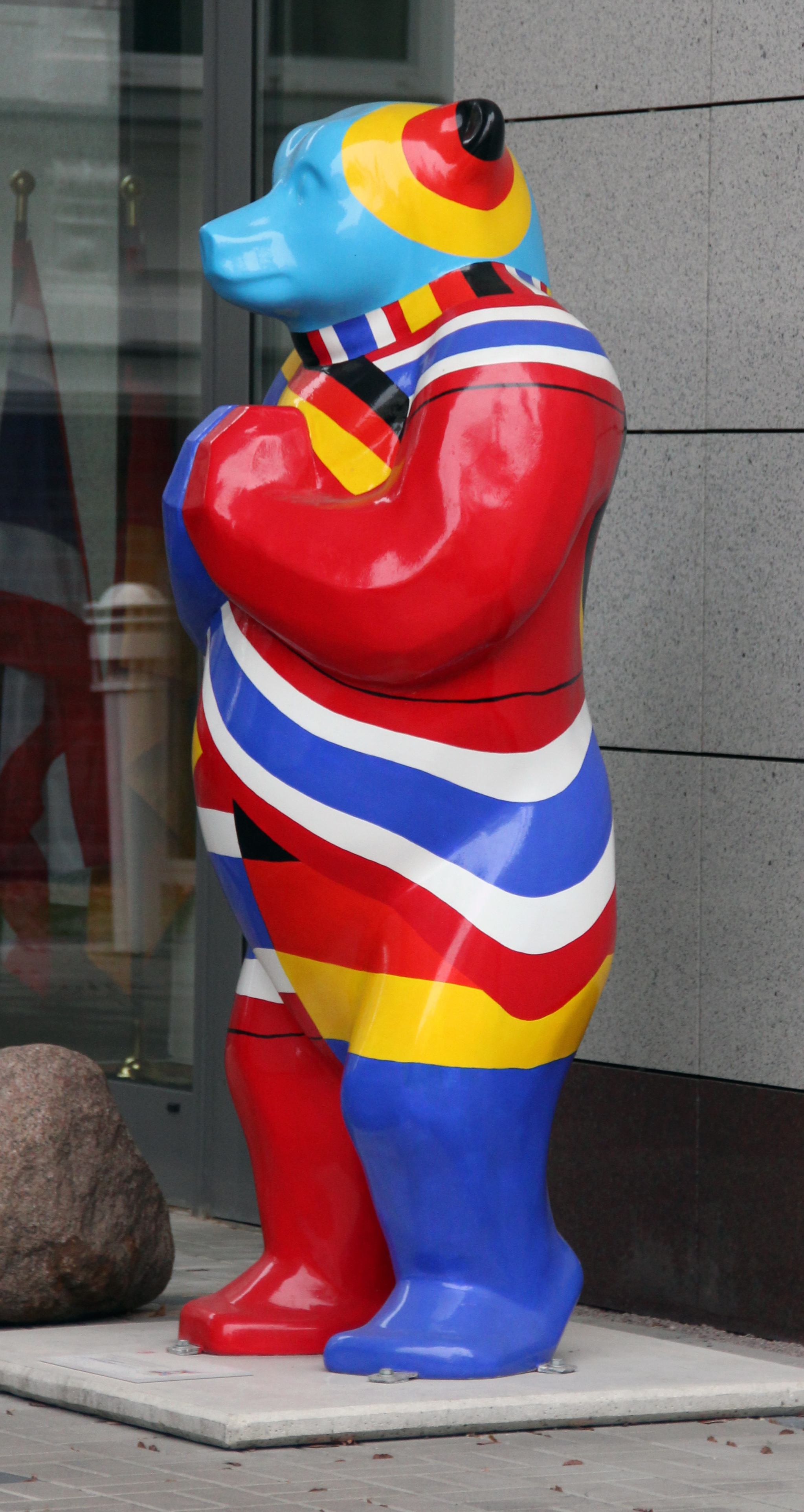 Sculpture, Buddy Bär, Lepsiusstraße 66, Berlin-Steglitz, Germany